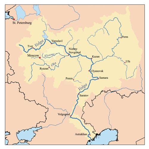 katThis is a map of the Volga River system with the Klyazma River highlighted. I, Karl Musser, created it based on USGS data.